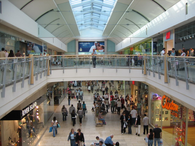 Red Mall Metro Centre